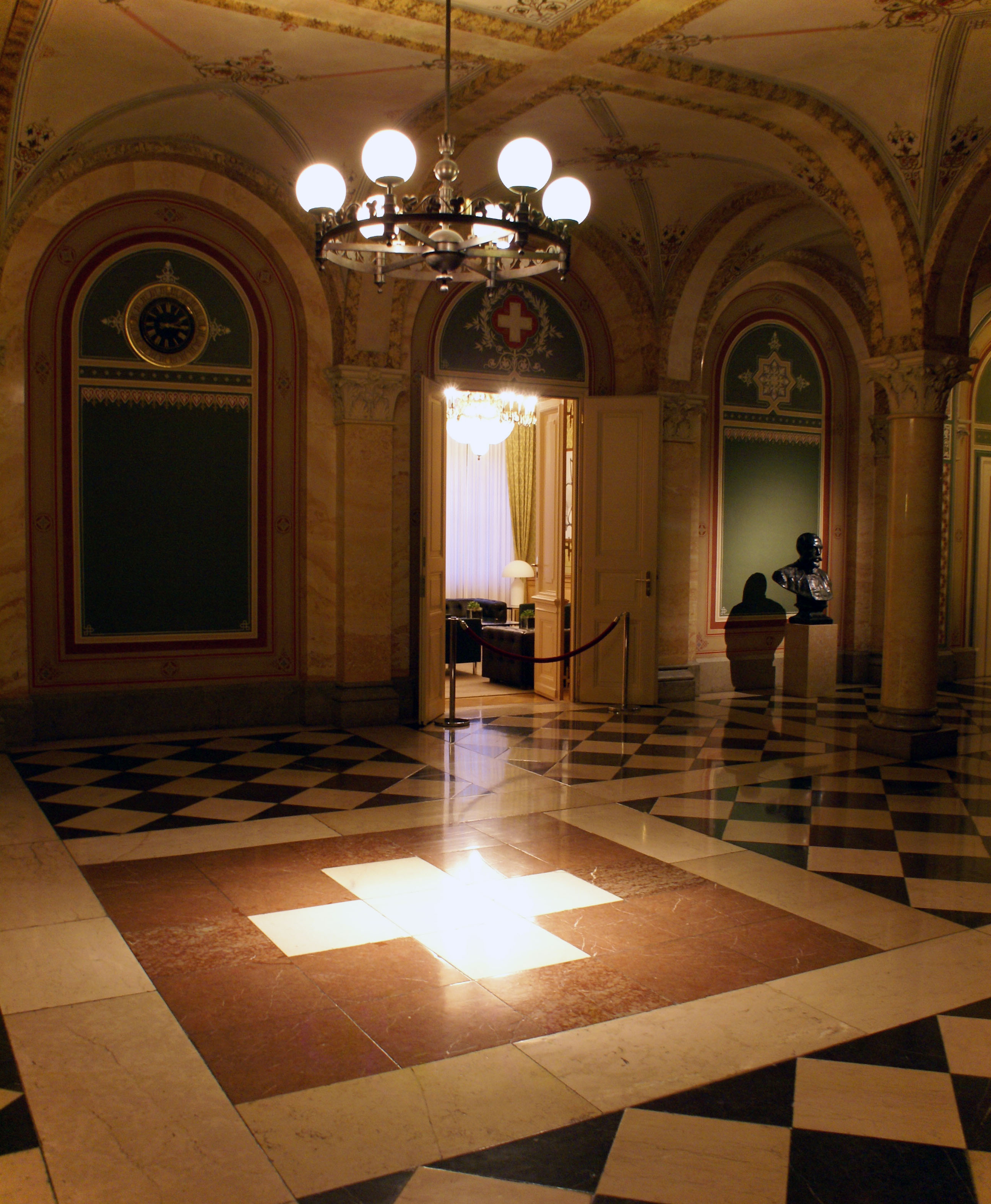 Vestibule and antechamber in the Bundeshaus West, the west wing of the Swiss Federal Palace in Berne, Switzerland. The Bundeshaus West is the headquarters of the Swiss Federal Council, the government of Switzerland.